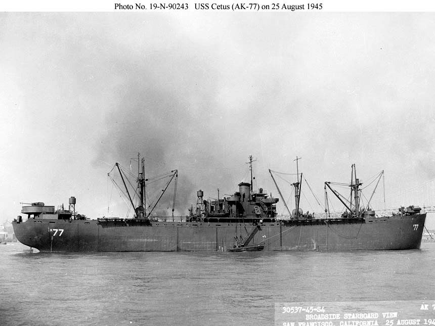 USS Cetus (AK-77) at anchor in San Francisco Bay, 25 August 1945, She has been modified with two 40mm guns instead of two 20mm guns in the after positions on the deckhouse. The 40mm guns are stowed horizontally while the 20mm guns in the forward positions on the deckhouse are stowed vertically.